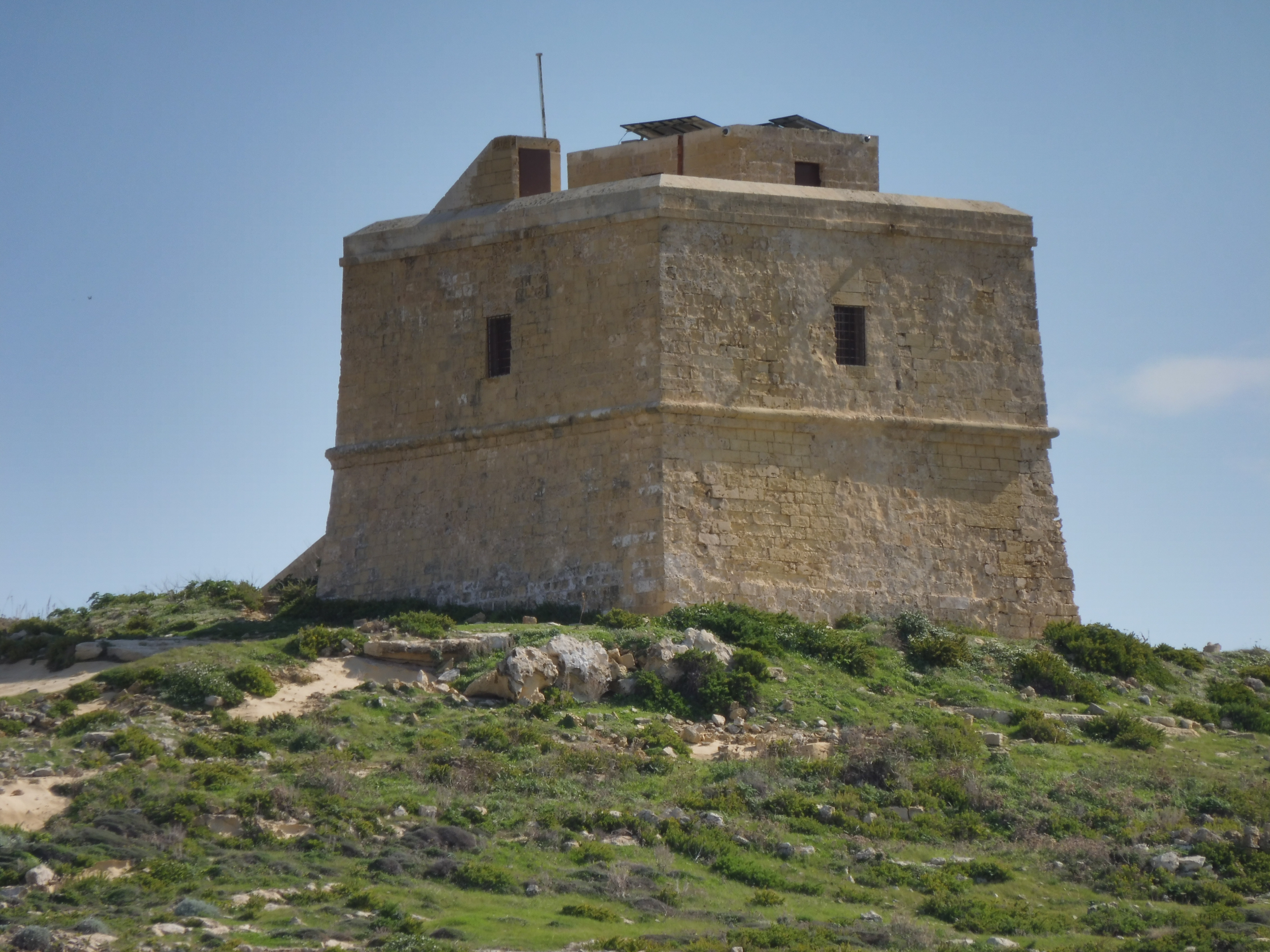 Dwejra Tower on the island of Gozo (Malta) in 2019